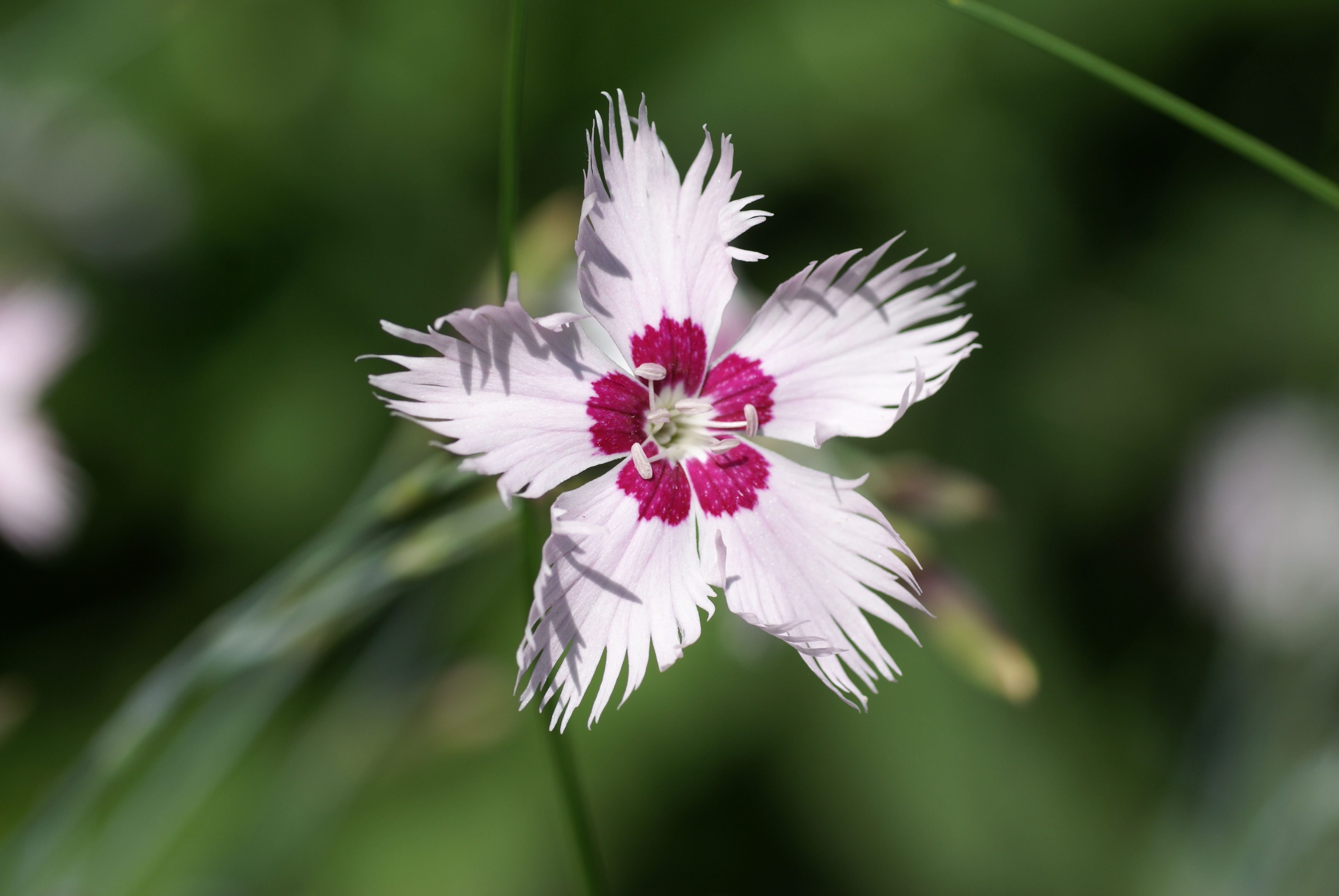 Plant species Dianthus bisignanii in Bergianska trädgården in Stockholm, Sweden